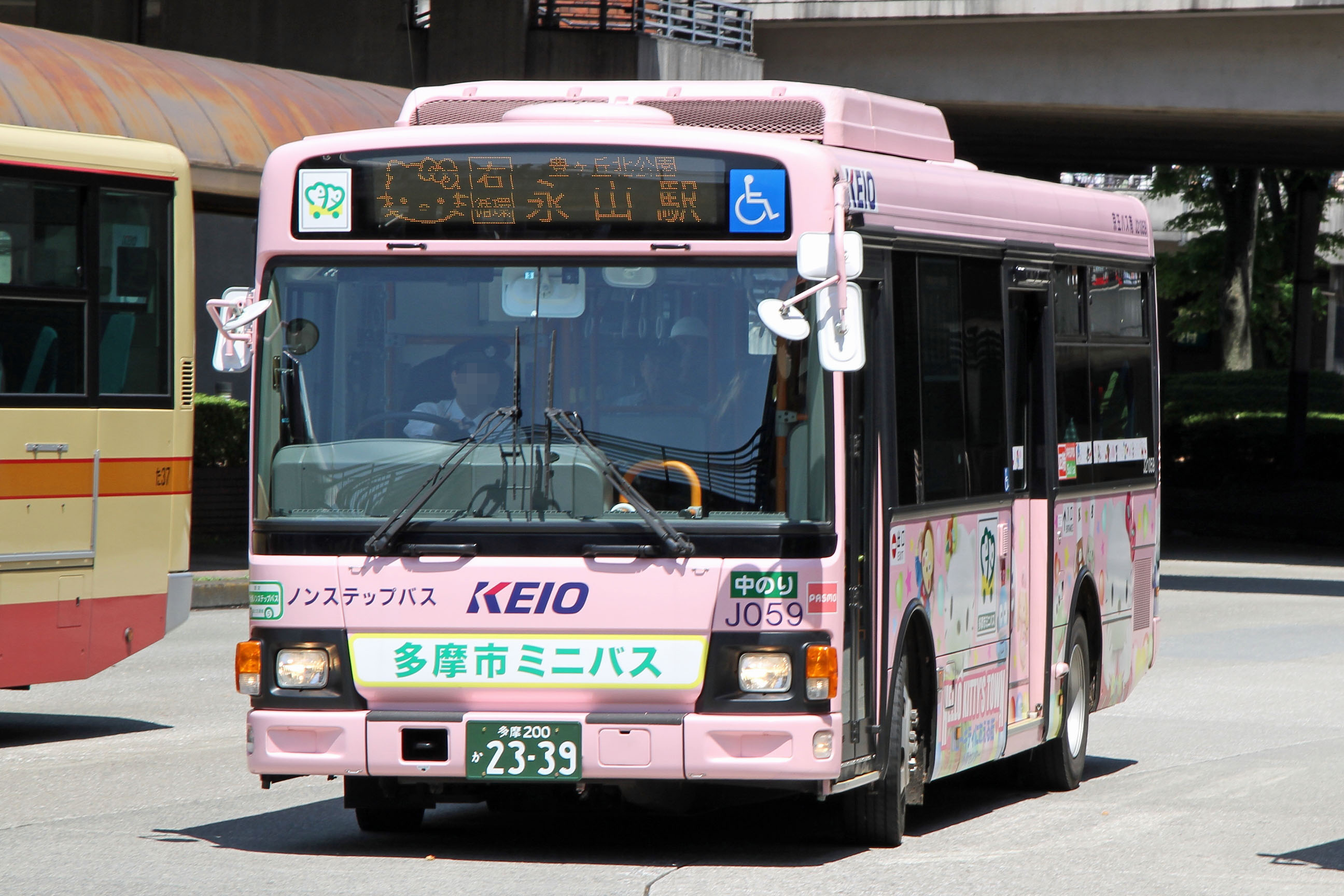 Tama City Community Bus "Tama City Mini Bus" 多摩市のコミュニティバス「多摩市ミニバス」